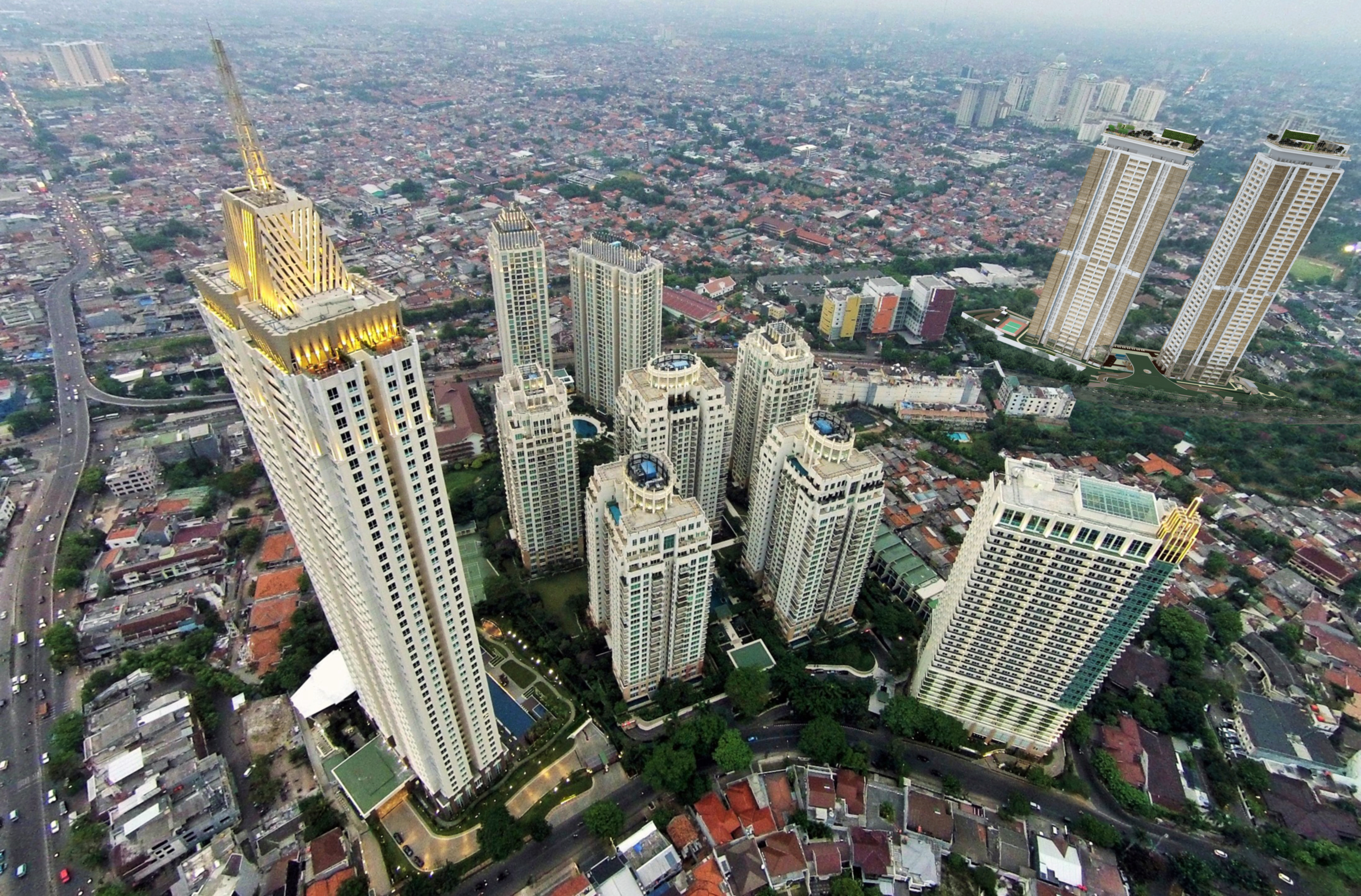 Seen here (left-to-right): The Pakubuwono Signature, The Pakubuwono Residence, The Pakubuwono View, The Pakubuwono House, and an artist rendering of The Pakubuwono Spring.